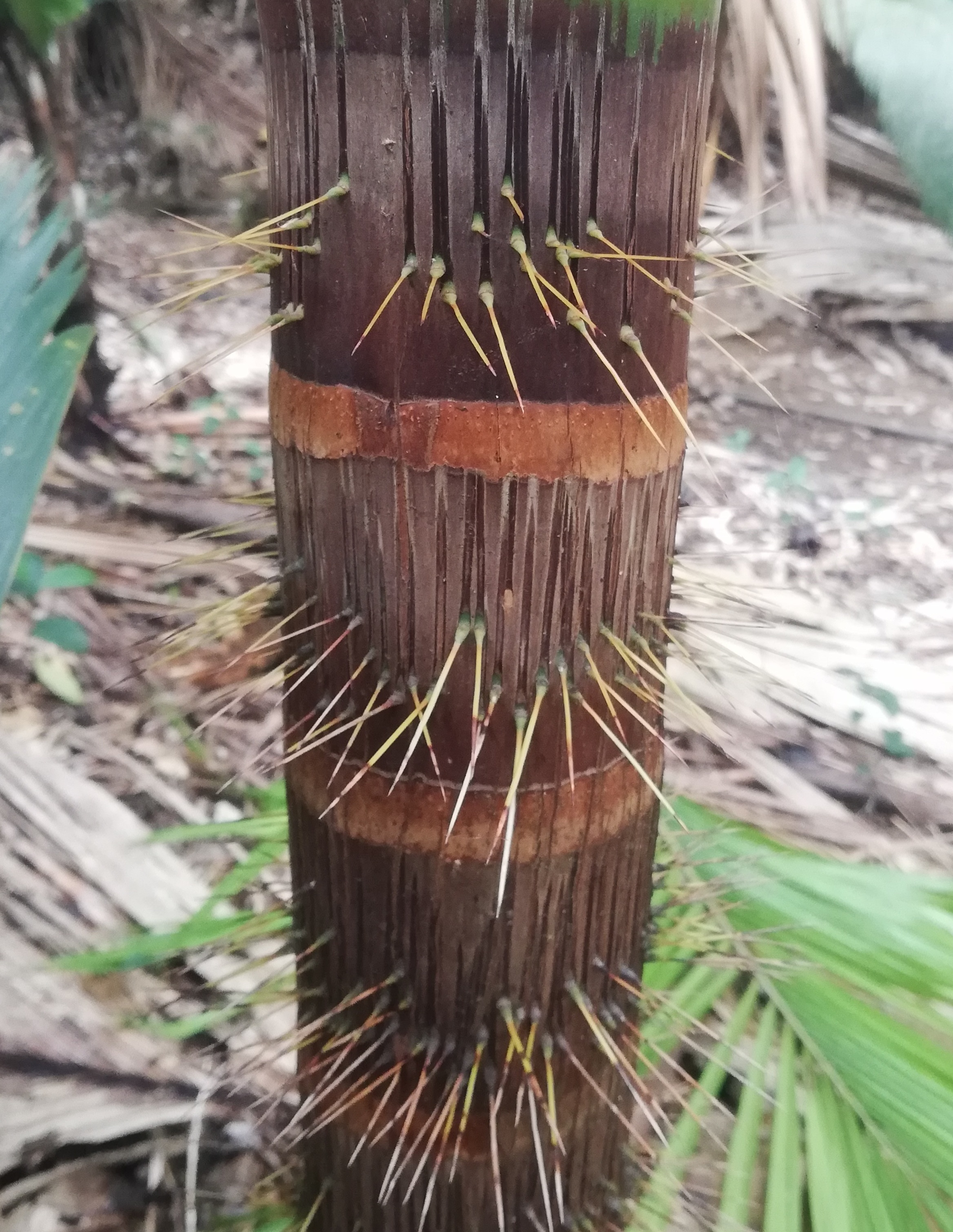 Deckenia nobilis trunk and spines